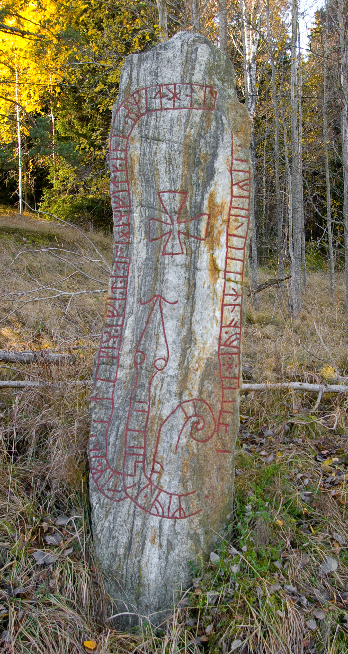 Runestone Sö 261 in Betby, Södermanland, Sweden. The "runic text" is composed of rune-like characters which have no meaning.